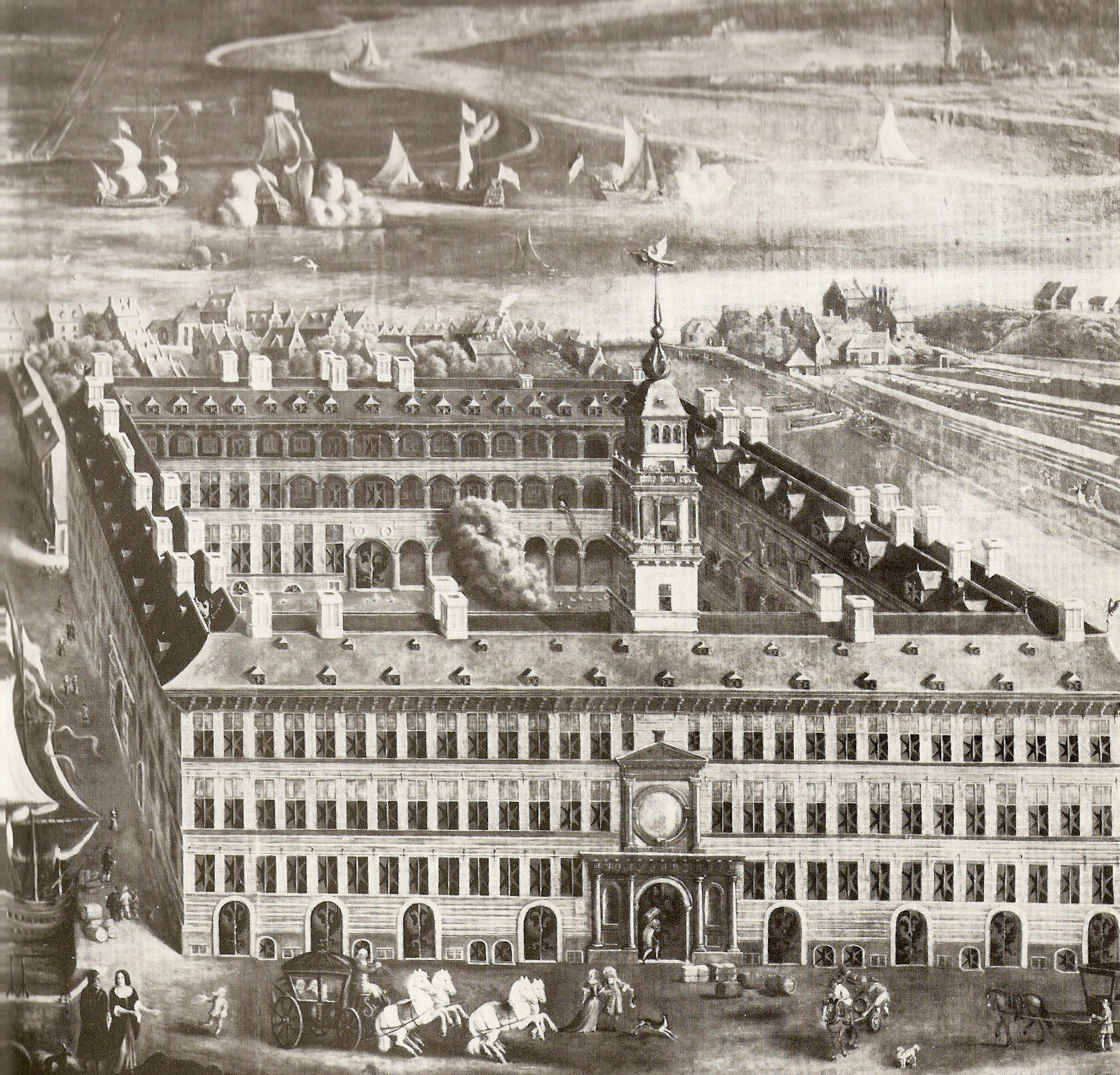 Painting of the Hanseatic League building in Antwerp built by Cornelis Floris in the 16th century